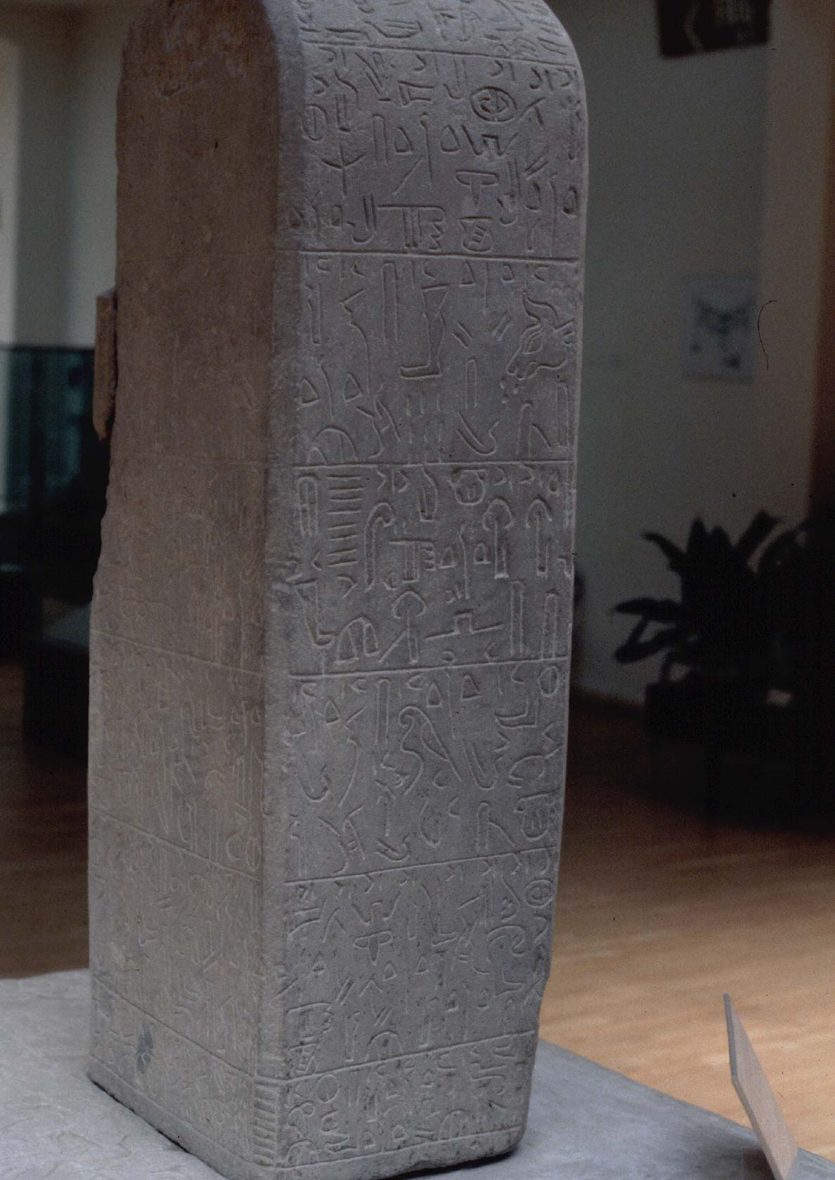 Luwian hieroglyphs on a 4-sided stele.